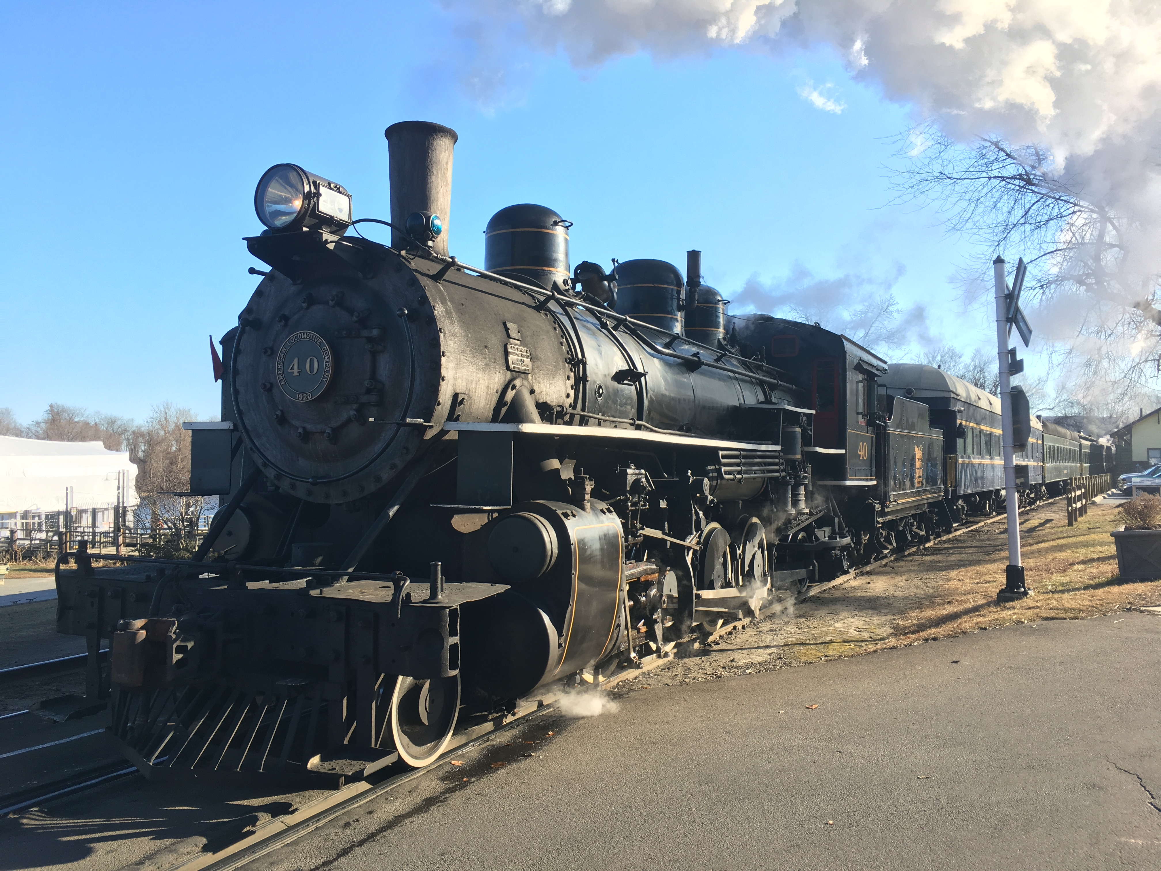 Valley Railroad #40 at Deep River in December 2018